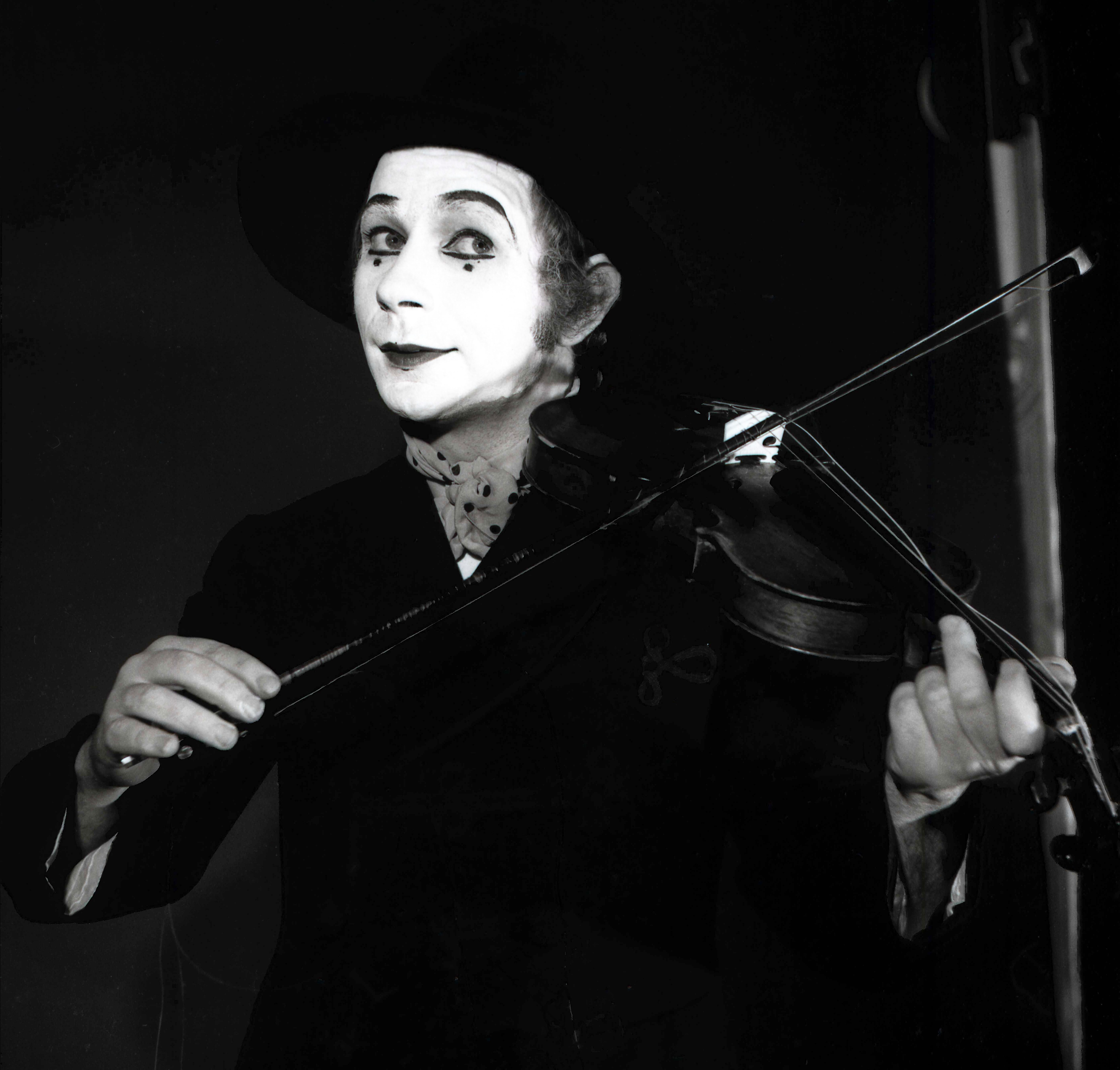 Lindsey Kemp taken in photographer's studio Kensington London